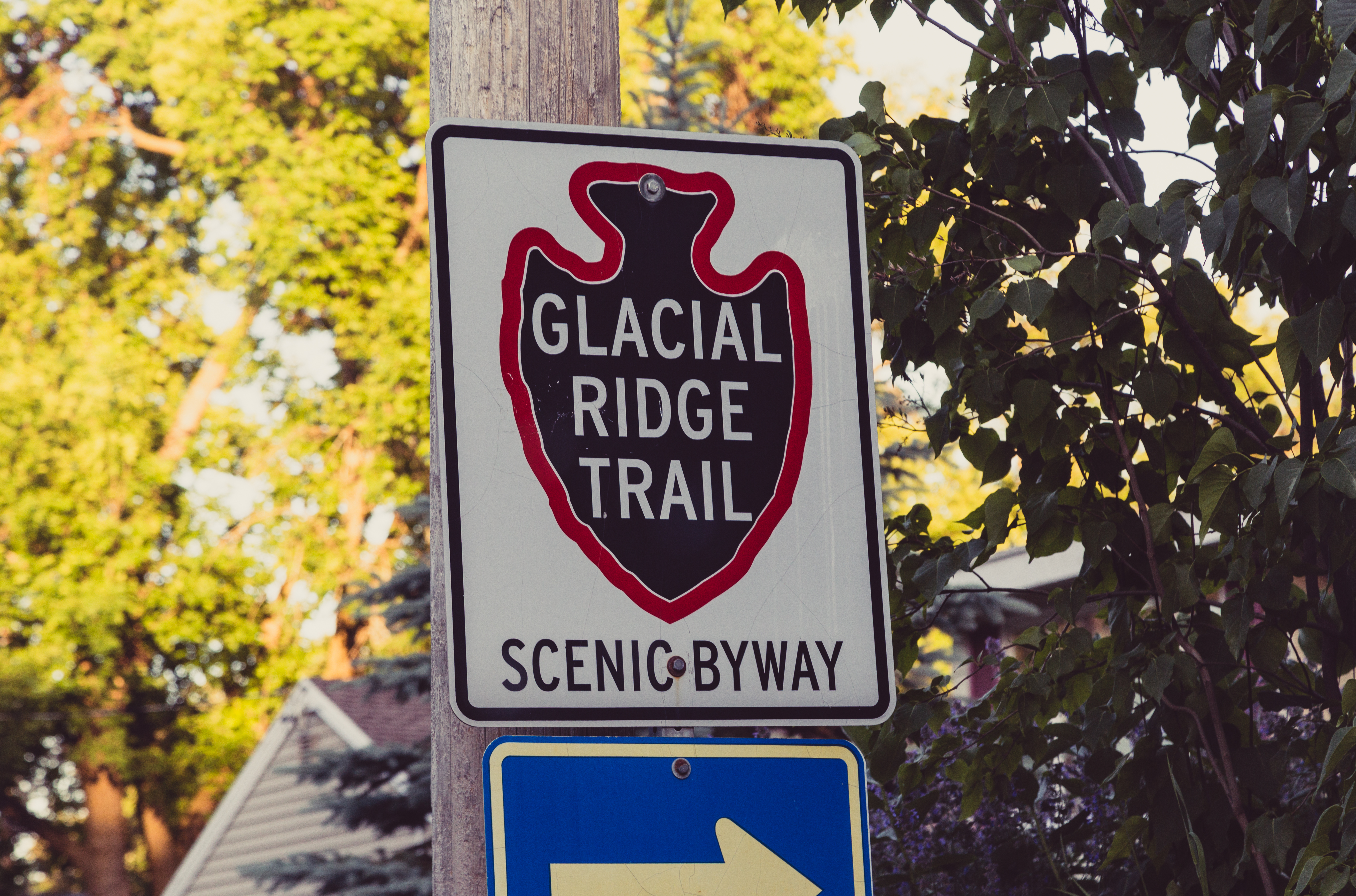 A sign for the Glacial Ridge Trail Scenic Byway in New London, Minnesota